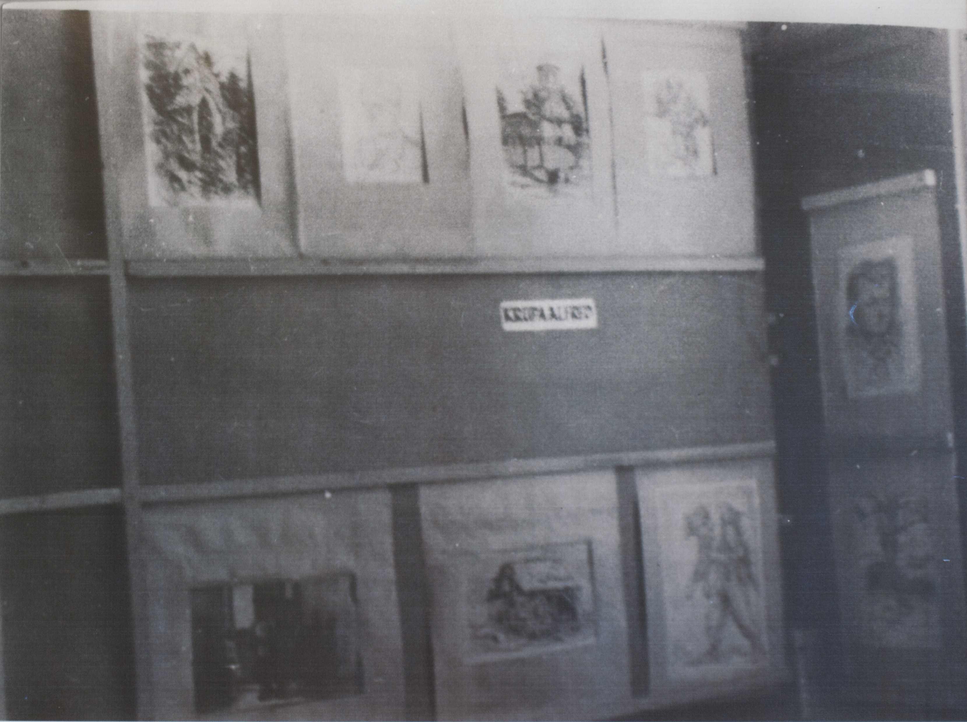 digital image of the 1944 photography of the Polish - Yugoslavian partisan painter Alfred Krupa exhibition (prof. Alfred Joseph Kruppa MFA, Mikołów / Nikolai, Preußisch-Schlesien 22 July, 1915 - Karlovac, 16 October 1989, finished study of painting in 1937 at the Academy of Fine Arts in Krakow, the student of Jozef Mehoffer, painter, inventor and sports official)- Author of this photography is unknown and it is image of undoubted historical importance. It has been taken at the at the historic very first Partisan exhibition held in Topusko in 1944 on the free territory of Yugoslavia ( "The First Congress of Cultural Workers of Croatia - Prvi kongres kulturnih radnika Hrvatske" at Topusko, 25th-27th June 1944). Alfred Krupa was one of the 13 core artists of the Art of Croatian Antifascist Movement (Detoni, Radauš, Simaga, Rukljač, Prica, Claus, ĆaĆe, Ćermak, Krupa, Murtić , Agbaba, Rajkovic and Čerić) and founder of the Watercolor Biennal of Yugoslavia (BAJ,1979). It was a unique event in the rebellious Europe, an unprecedented event when scientists, professors, writers, poets, composers, actors, directors, along with them and amateurs were together. In the honorary presidency were appointed marshals, state presidents, writers, generals, writers, scholars, sculptors (among others Stalin, Churchill, Roosevelt, Tito, Nazor, Eduard Beneš, Josip Vidmar, Koča Popovic, Aleksej Tolstoy, HG Welles, Thomas Mann, Vanda Vasiljevska, Bozidar Maslarić, Zdenek Nejedly, Louis Adamić, Todor Pavlov, Artur Toscanini, Antun Augustinčić).